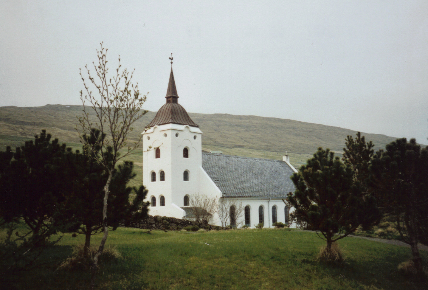 Park "Viðarlundin á Tungu", Miðvágur, Faroe Islands.